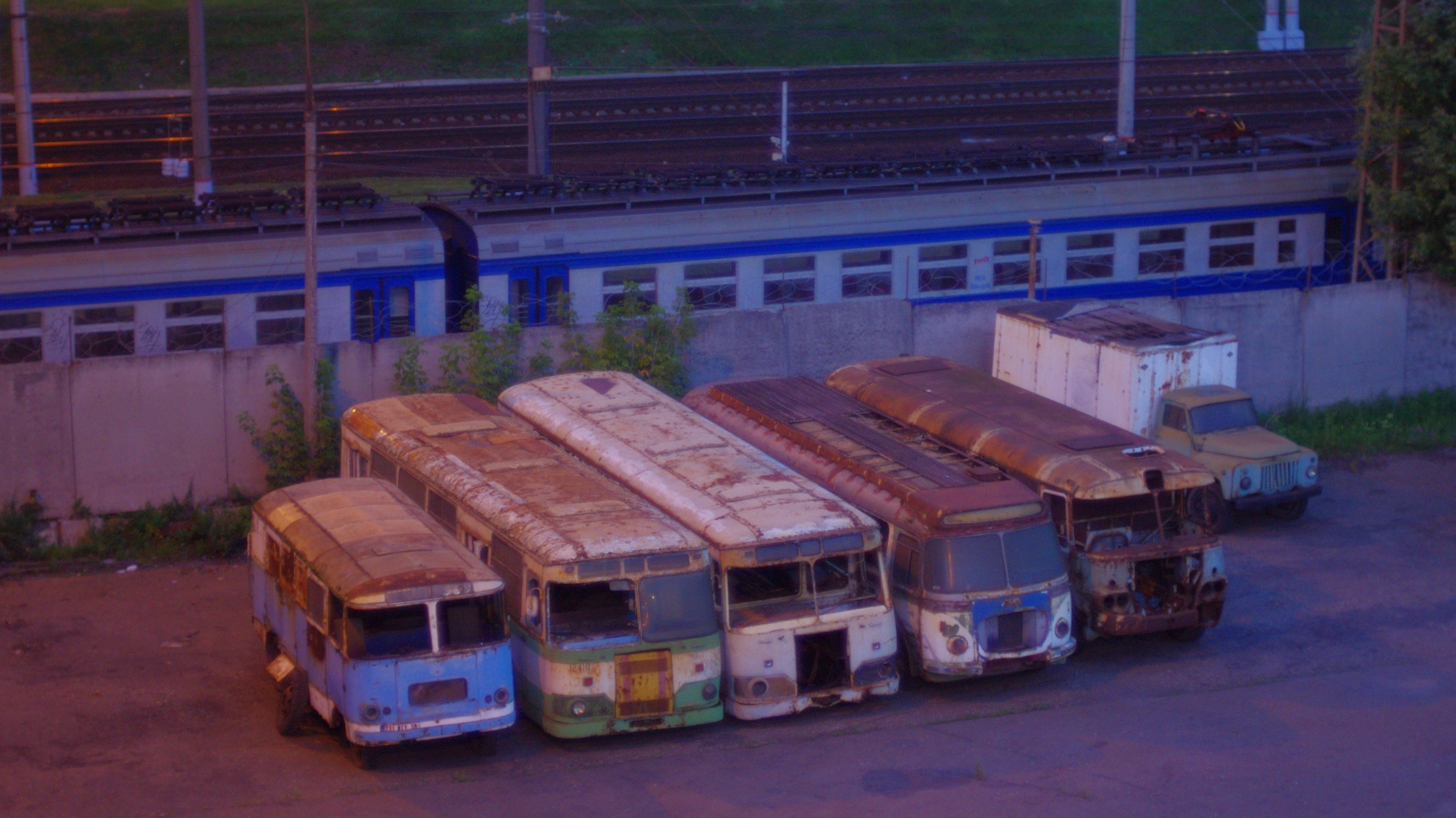 Moscow public transport museum warehouse